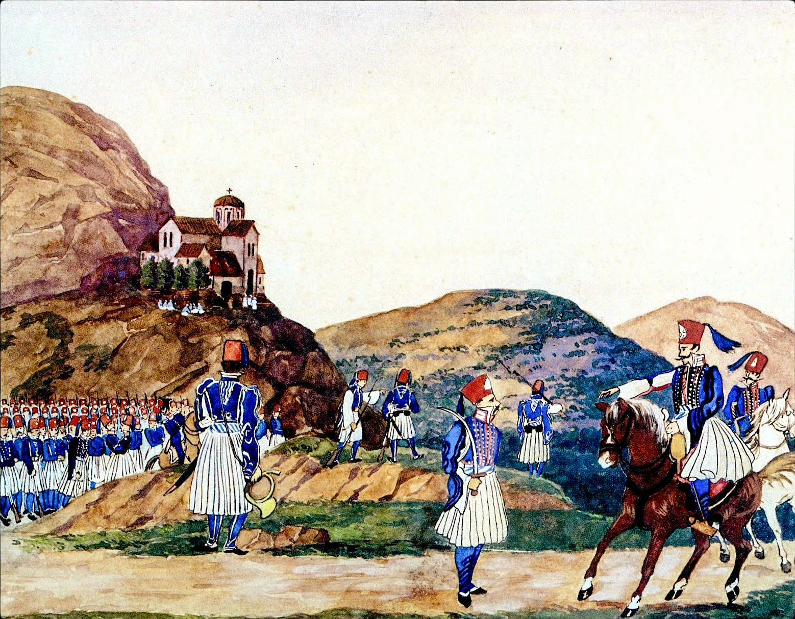 Rumeliote light infantry at Argos